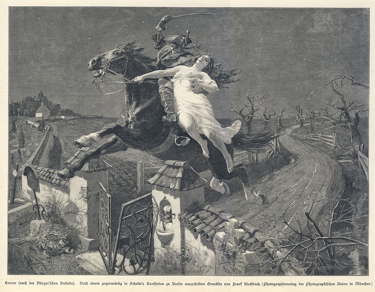 Illustration by Frank Kirchbach (1859-1912) of the ballad "Lenore" by G.A. Bürger. Engraved by Theodore Knesing (1840-1925).